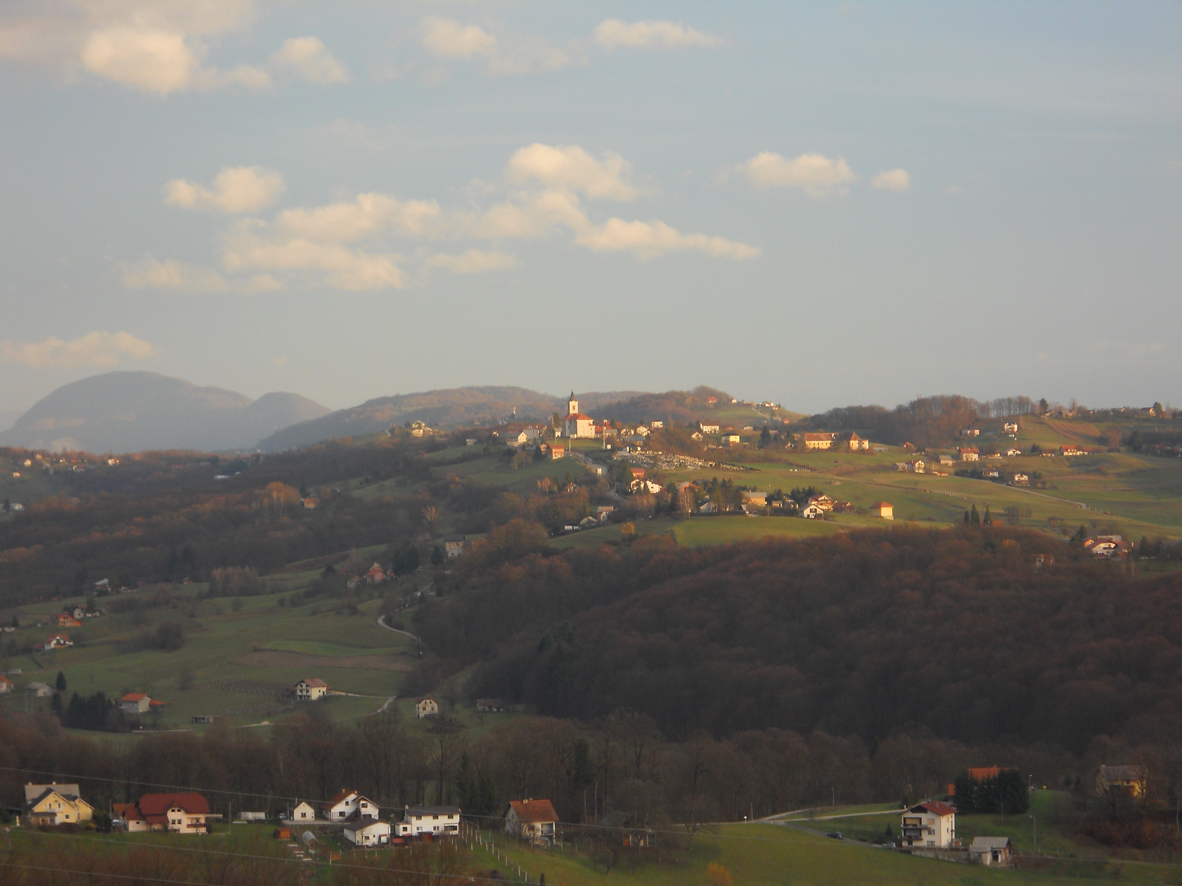 The border beetwen Slovenia and Croatia. Slovenian areas are at the front. The church of St. Peter on Pršlin in on croatian side. Photo taken fron Prnek, Rogaška Slatina.